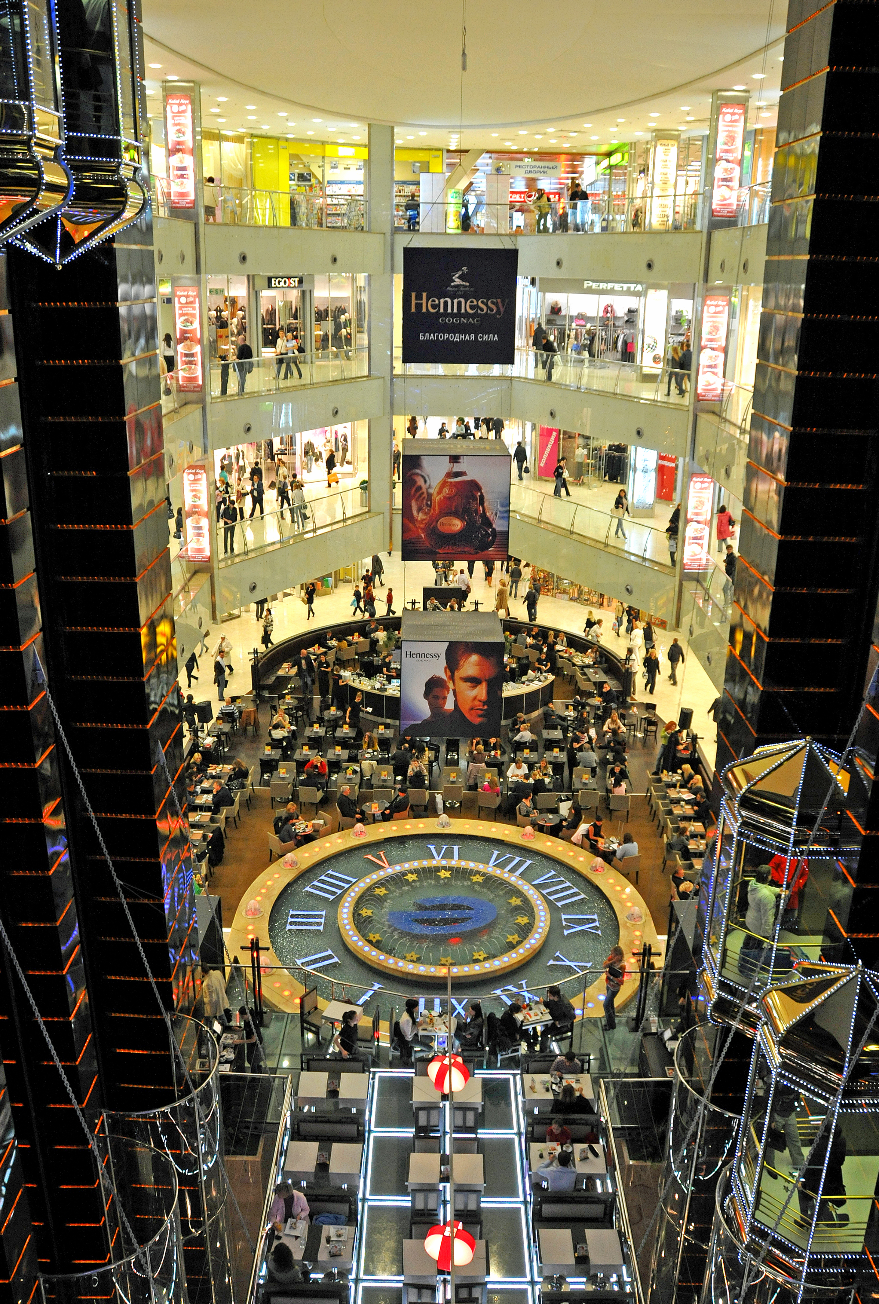 This is the shopping center not far from the hotel, it was large and crowded.